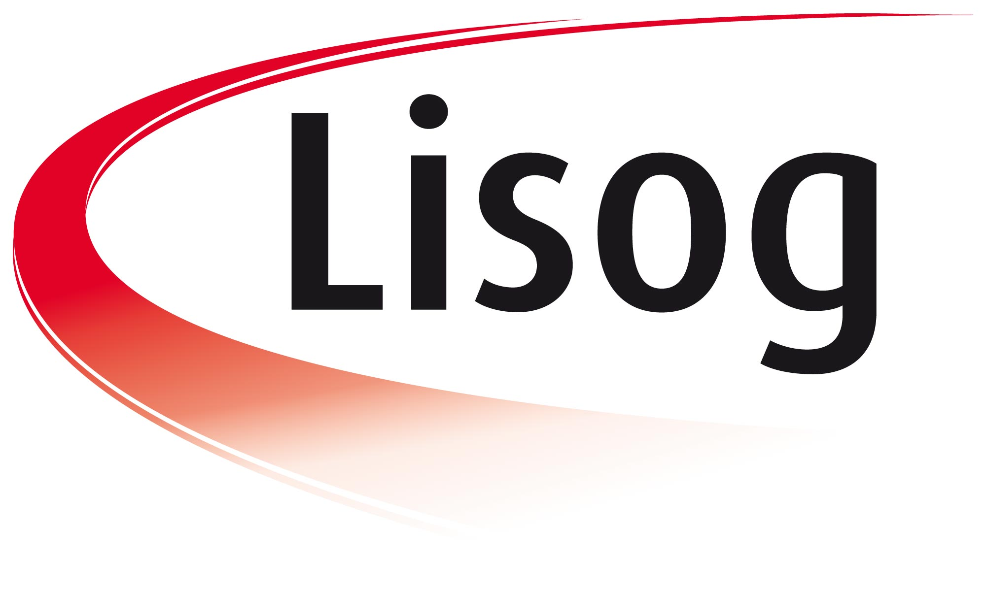 Press info of official website.